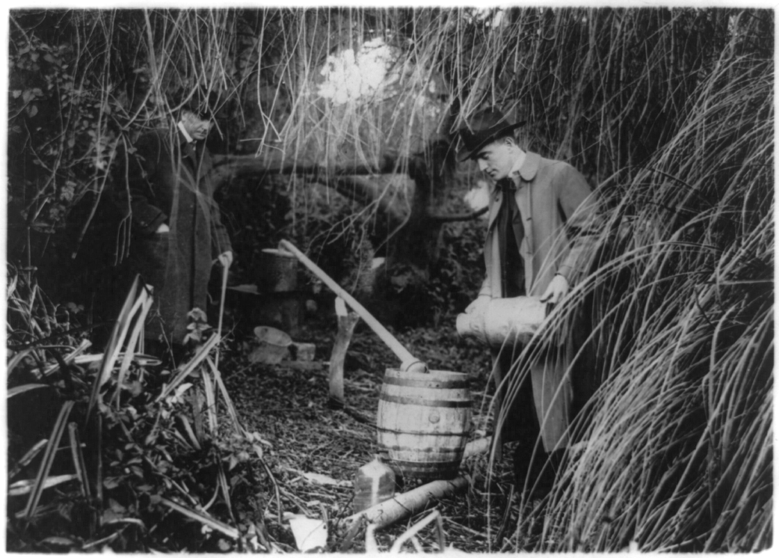 Image of agents destroying a still in San Francisco during Prohibition.